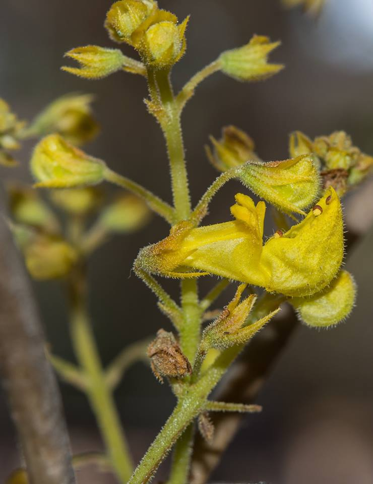 Plectranthus esculentus . - near Nelspruit, South Africa